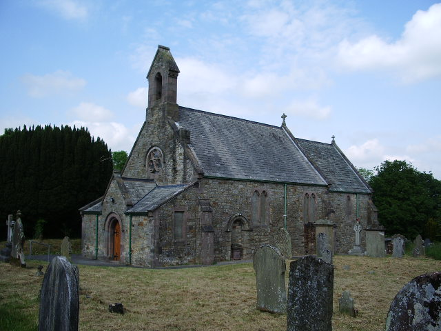 St Luke's Church, Clifton